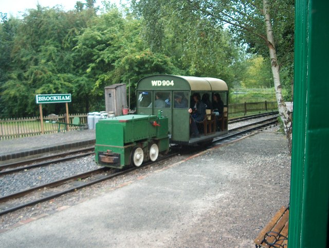 Battery Power Battery power on this narrow gauge loco at Amberley working museum.